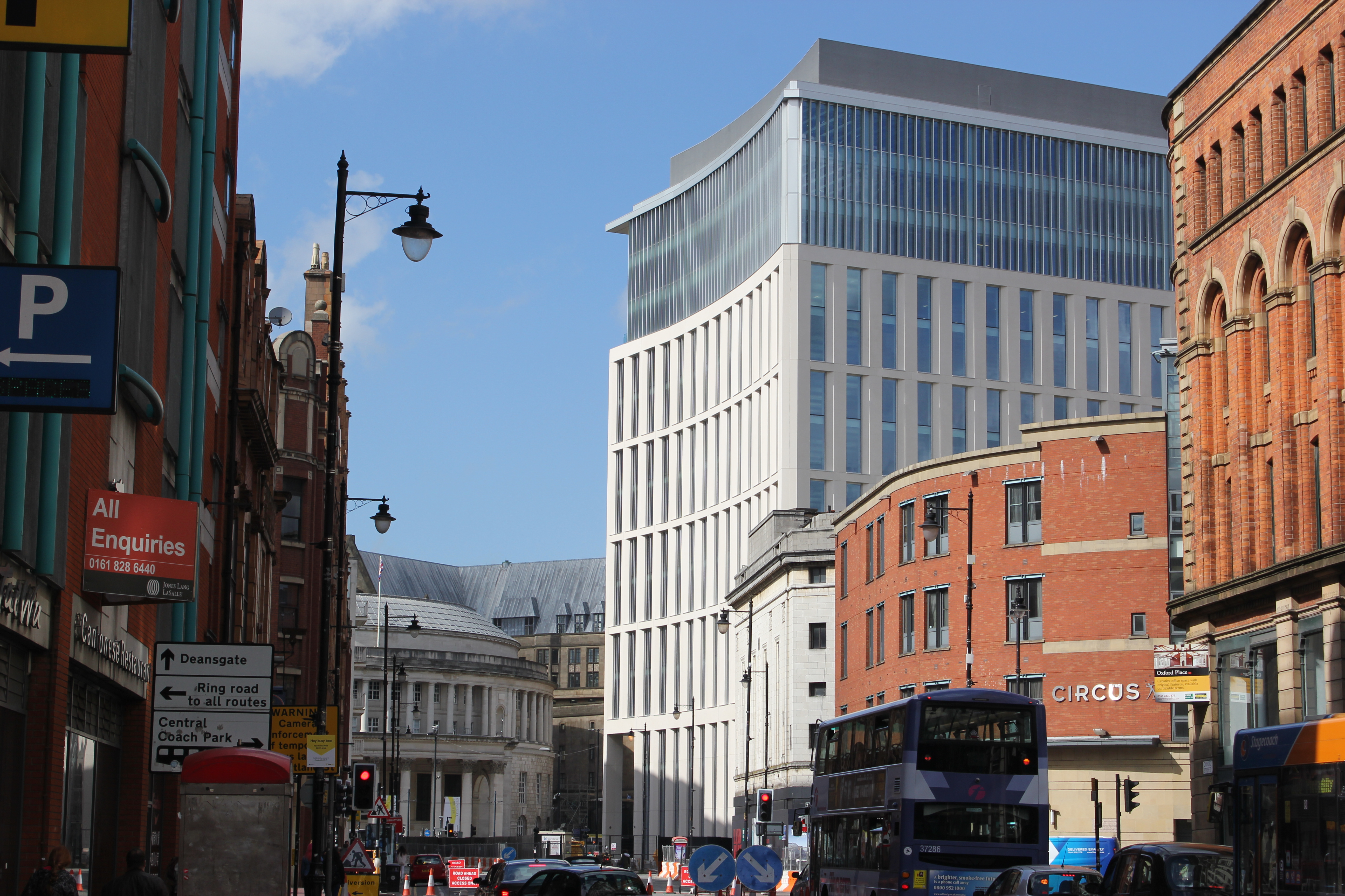 One St Peter's Square seen from Oxford Street, Manchester